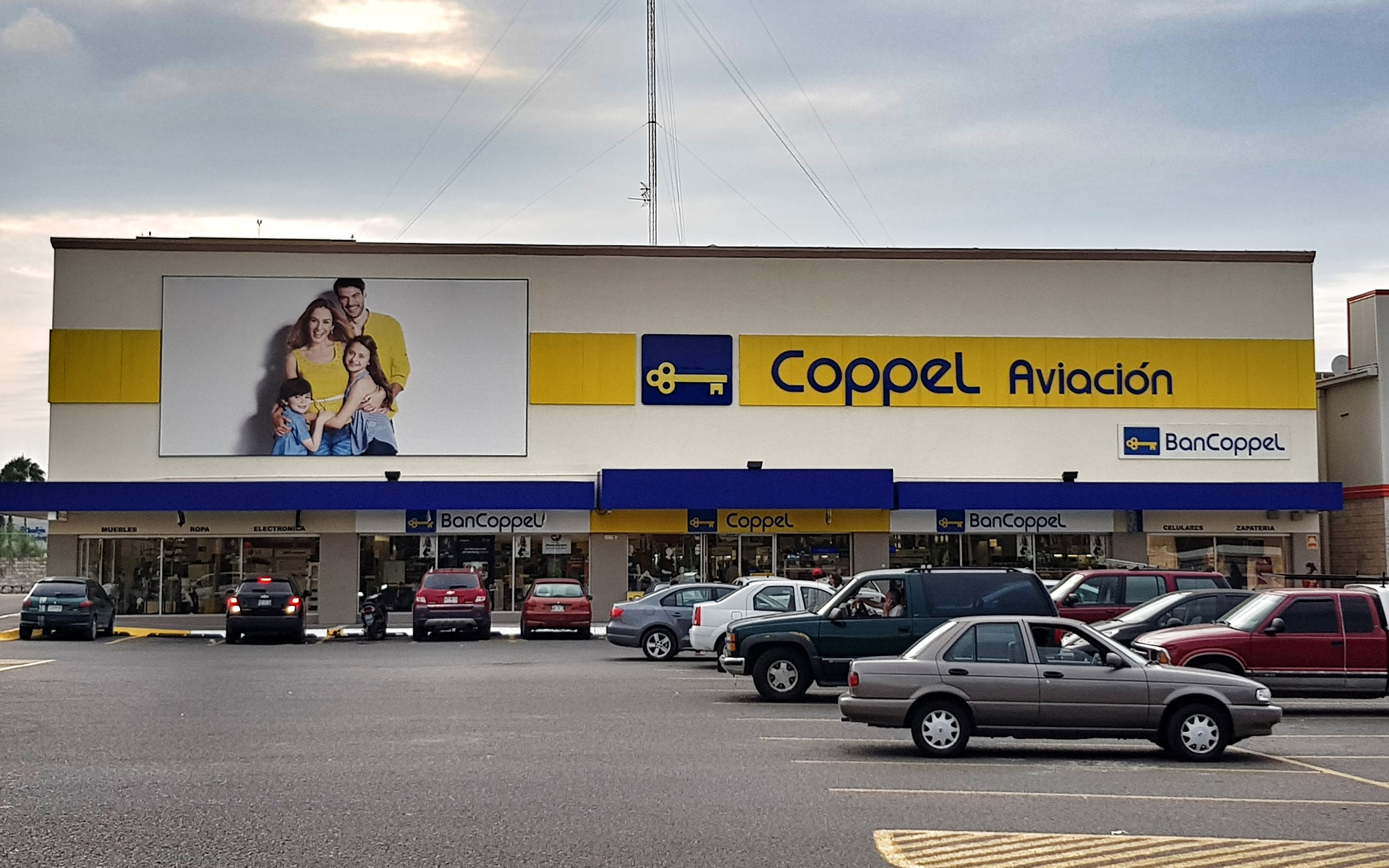 Coppel Aviación, Zapopan, Greater Guadalajara